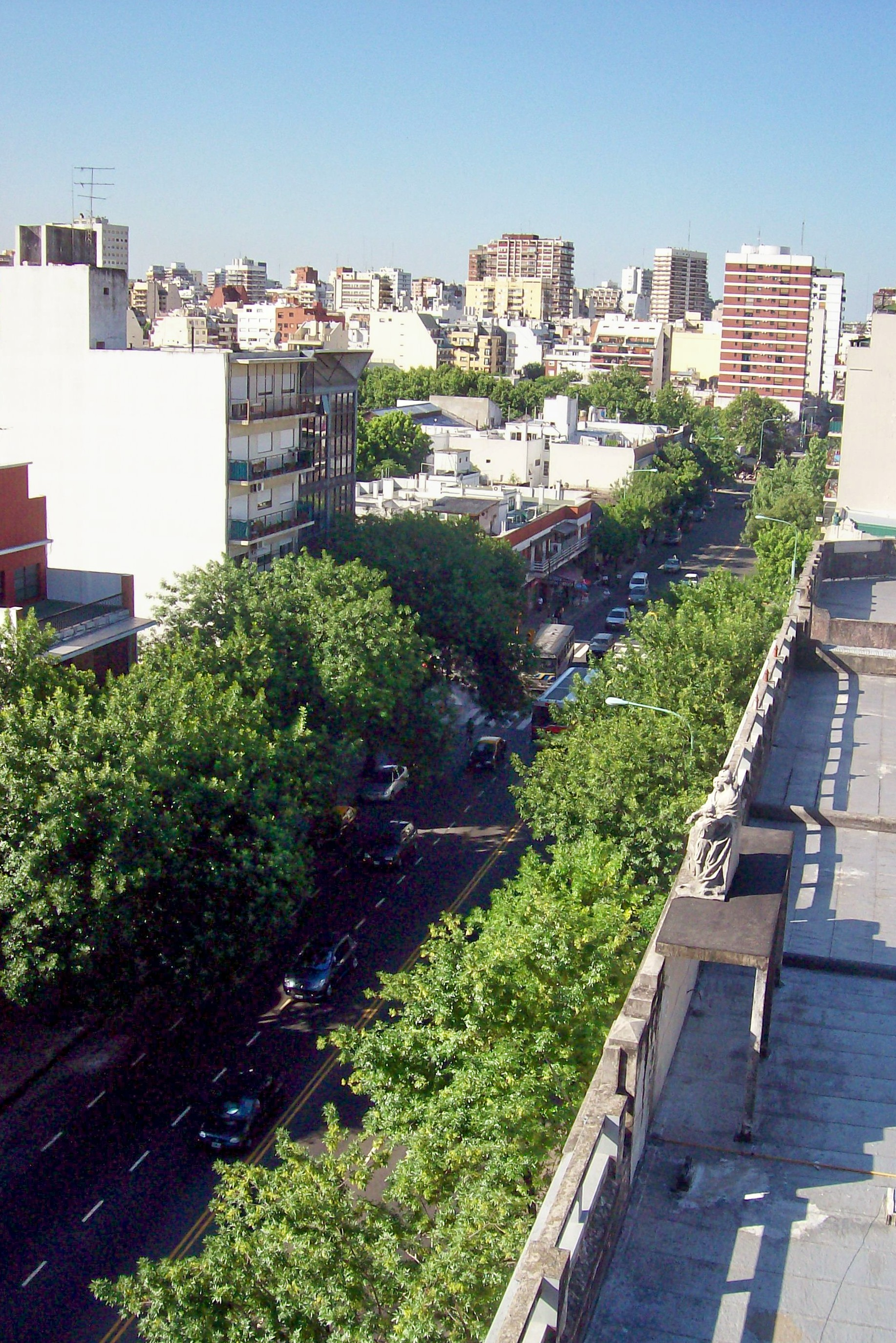 Federico Lacroze Avenue in Buenos Aires, taken from SW to NE